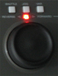 Jog-Shuttle. Sony Digital Betacam DVW-A500P recorder detail.